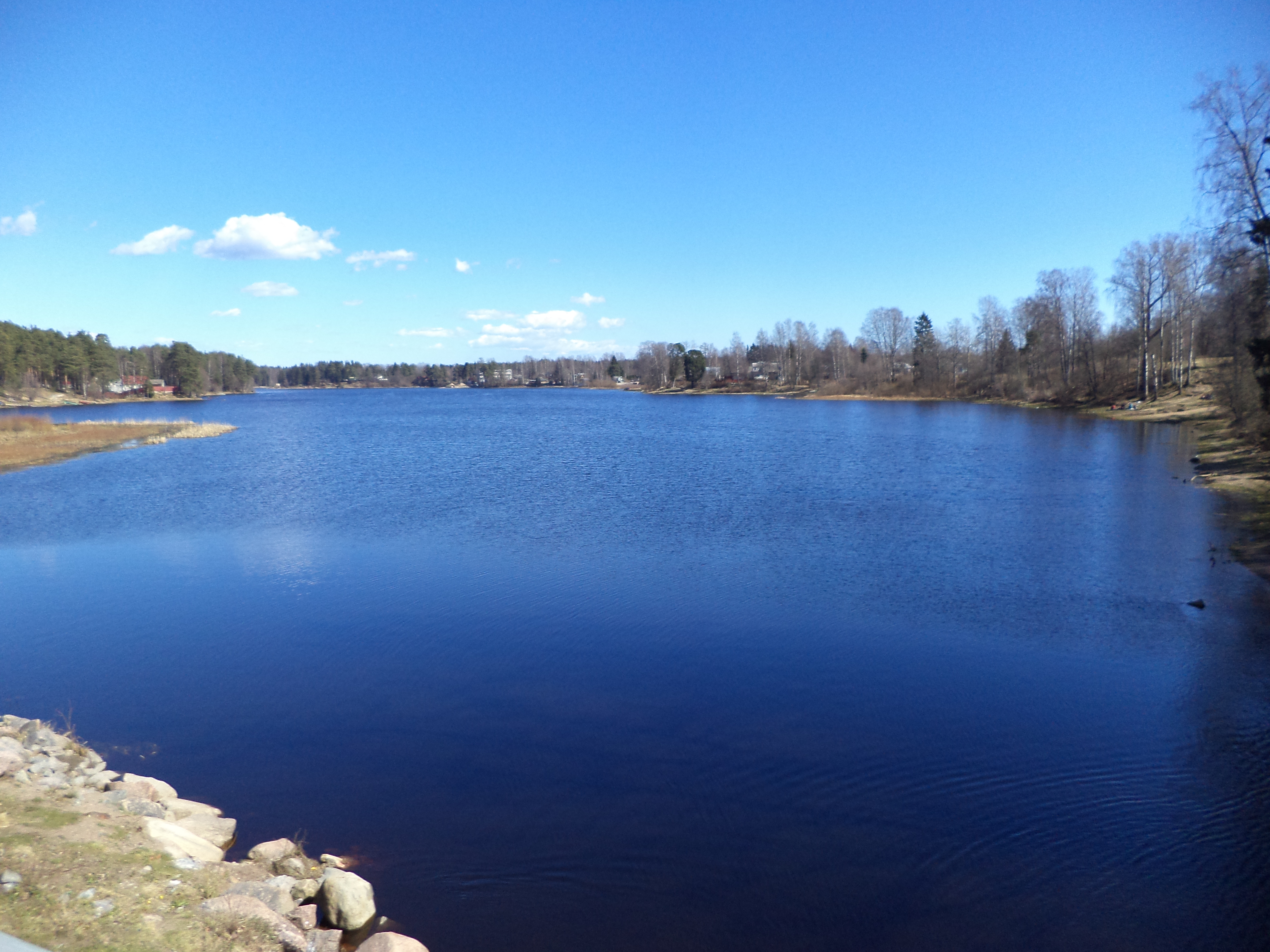 Lake Roshchinskoye. Leningrad region, Russia